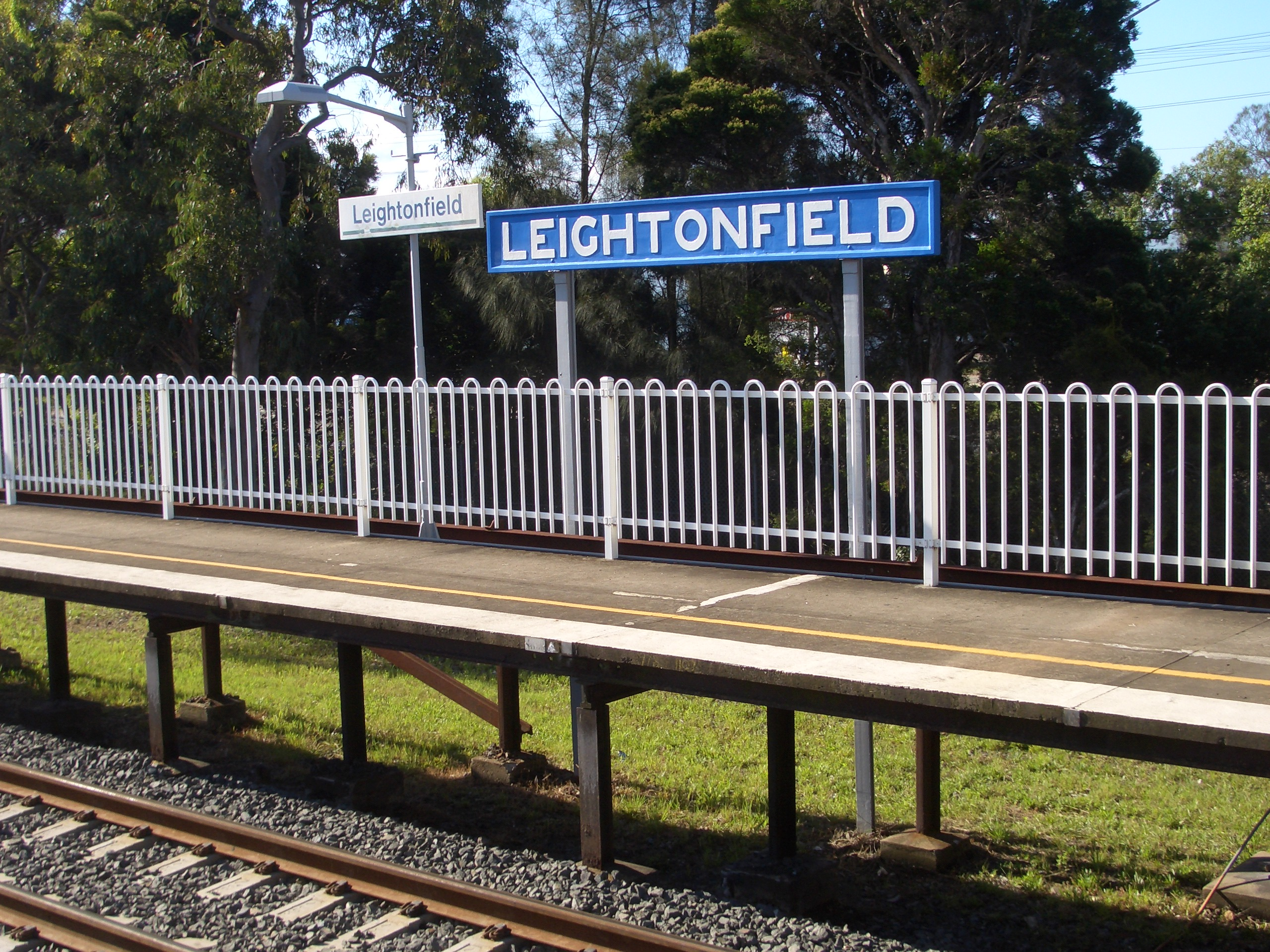 Leightonfield Railway Station